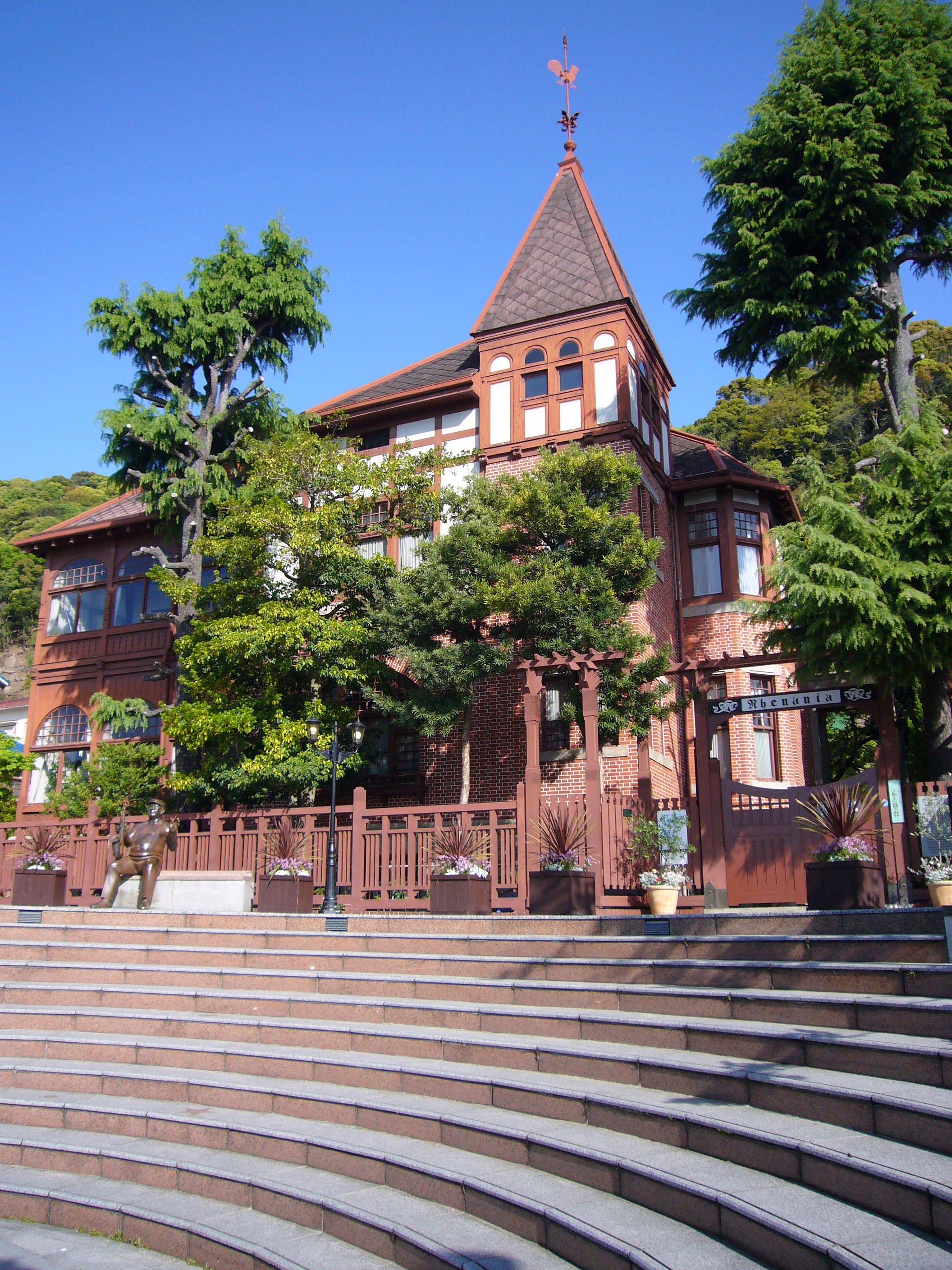 Old Thomas house in Kobe, Hyogo prefecture, Japan